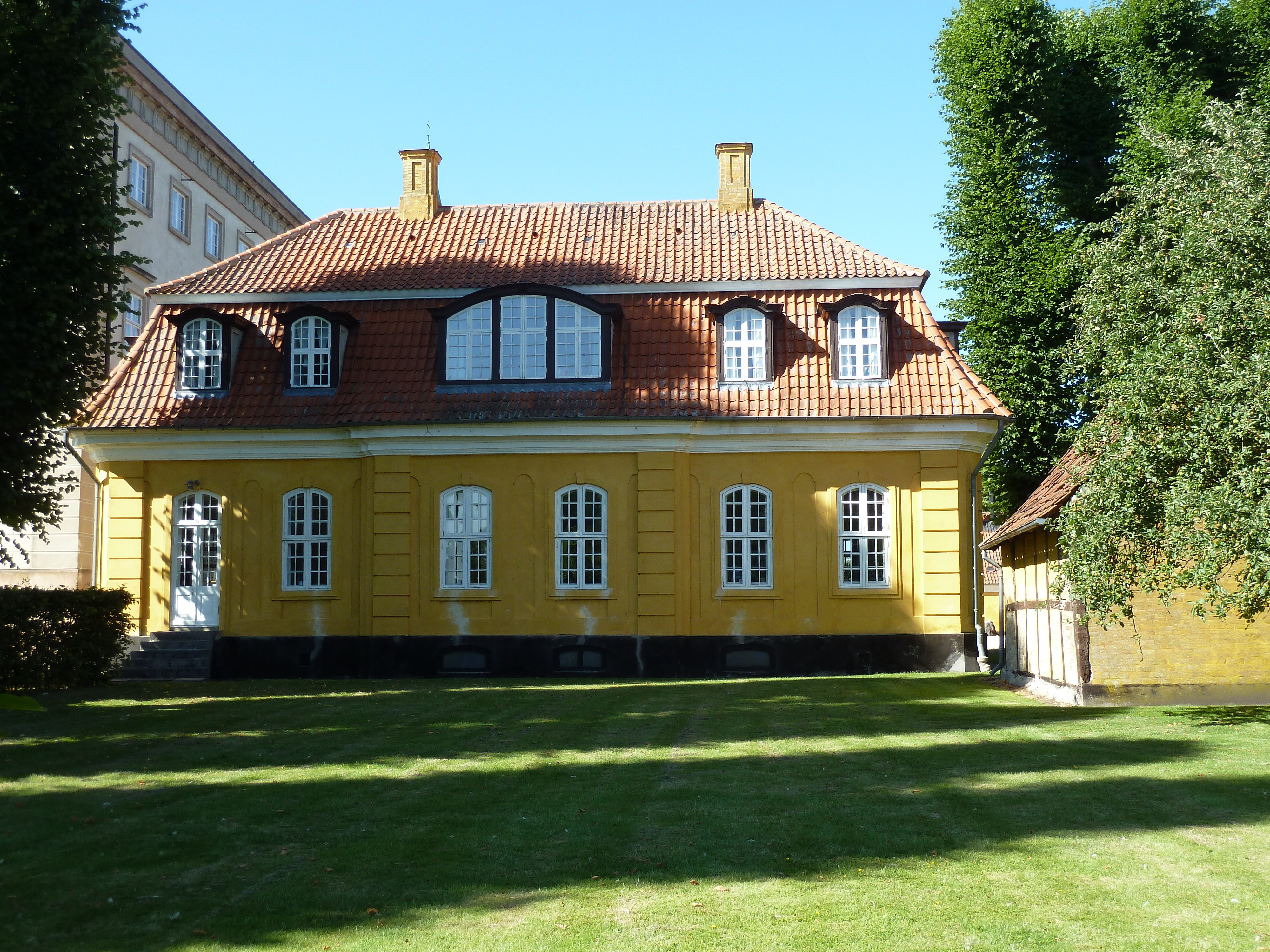 Ingemanns Hus at Sorø Academy in Sorø, Denmark